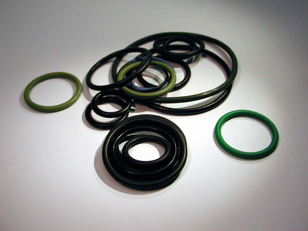 Original description: "O-Ringe gross" (O-rings large).